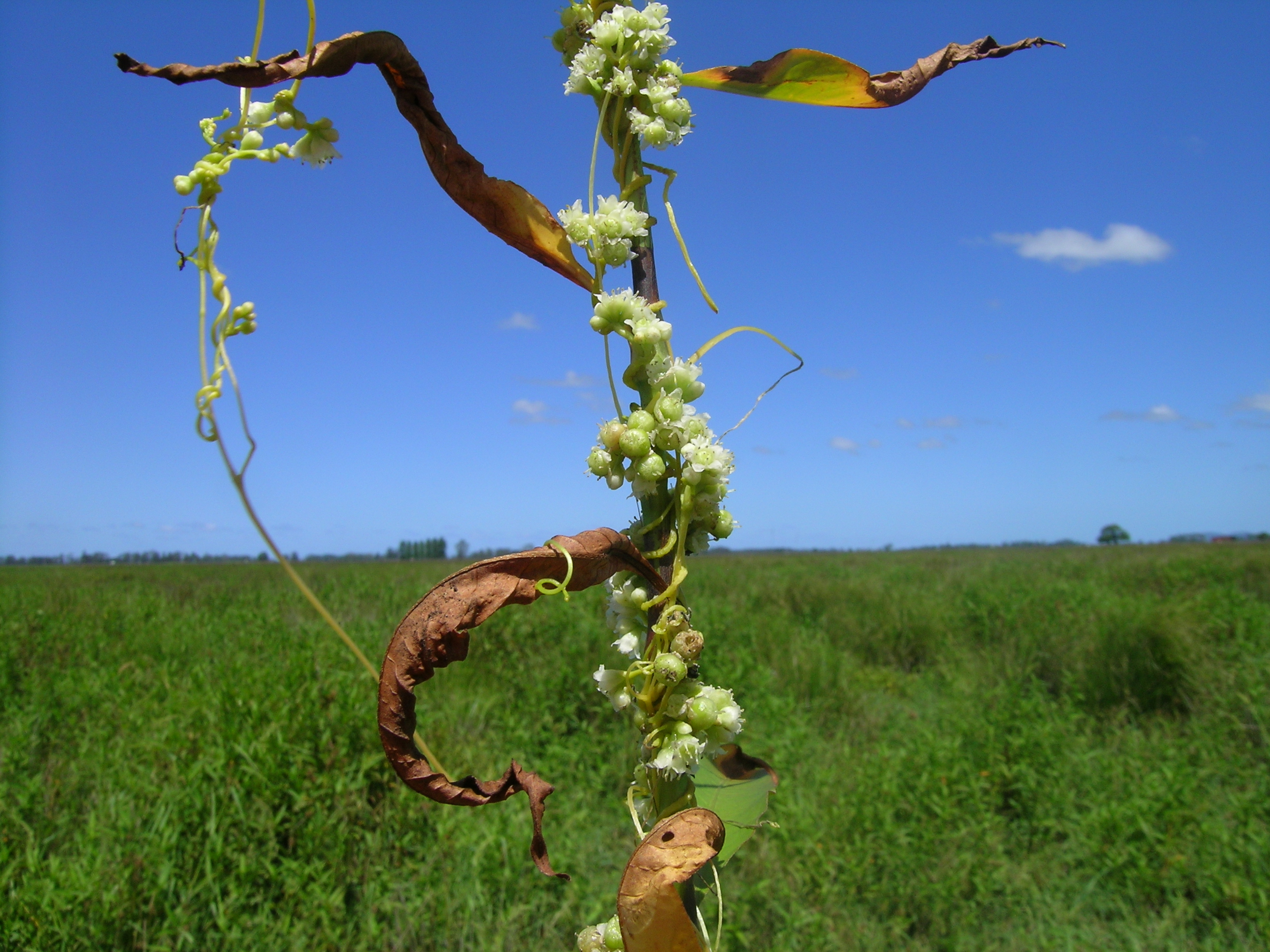 Native perennial, hairless, parasitic twiner.Stems are slender and pale yellow to brown. Flowers occur in compact clusters. Flowers are 5-merous; the calyx about 1.5 mm long and the corolla about 2 mm long, white to creamy and with obtuse lobes. Parasitic on native and introduced forbs.